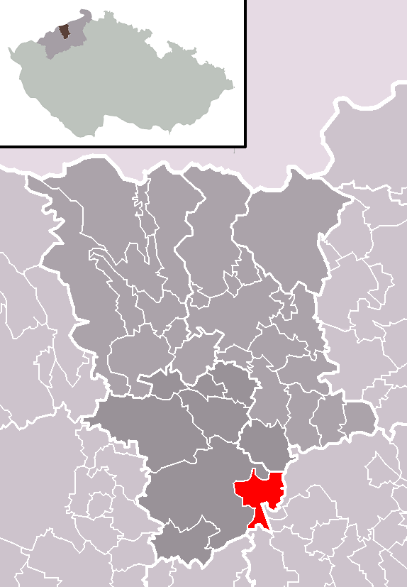 Location of Lukov municipality within Teplice District and administrative area of Bílina as a Municipality with Extended Competence.